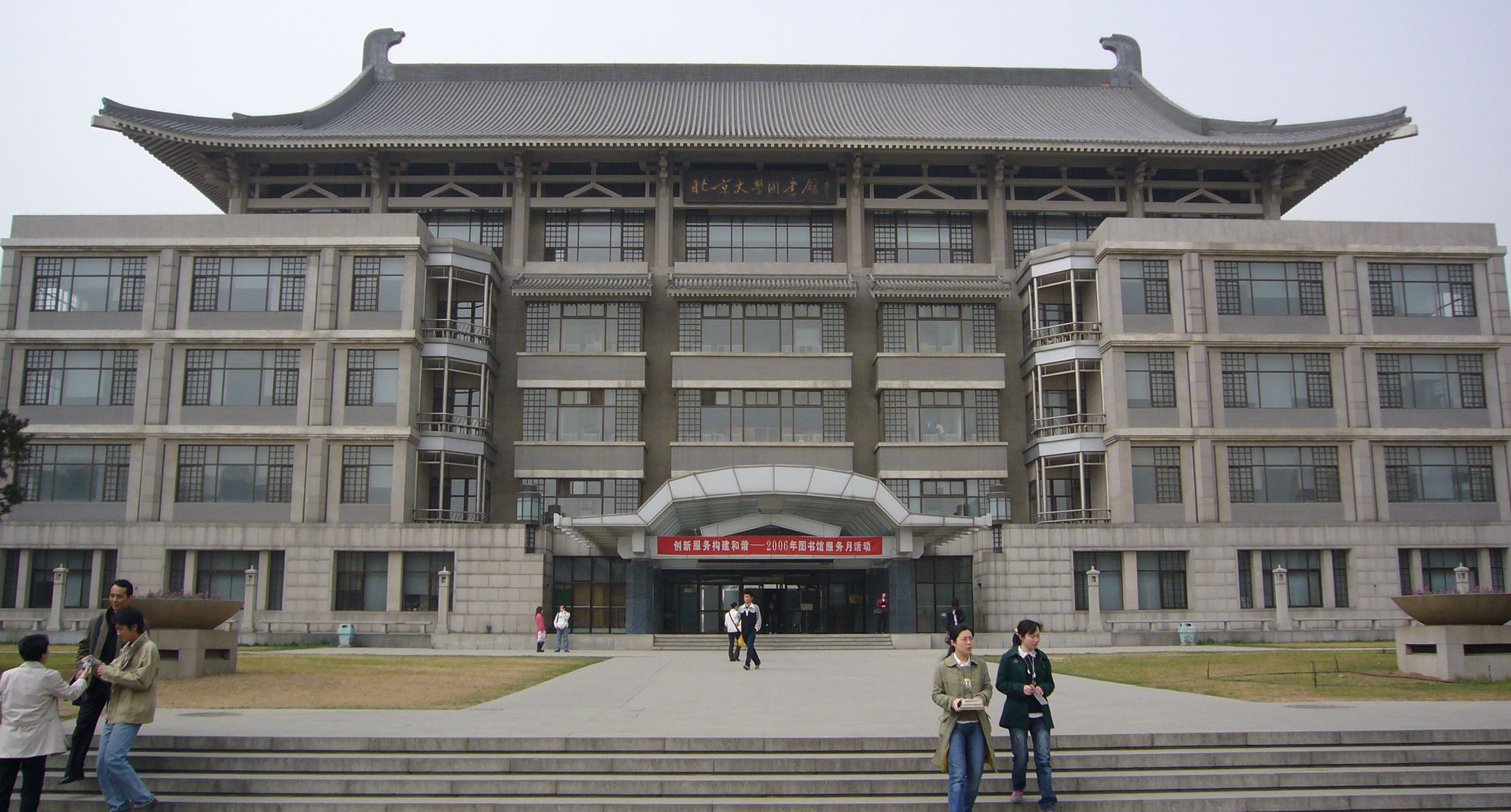 Peking University